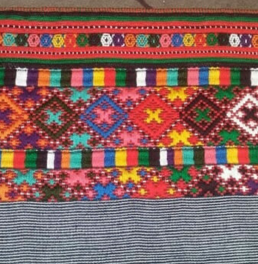 balochi doozi